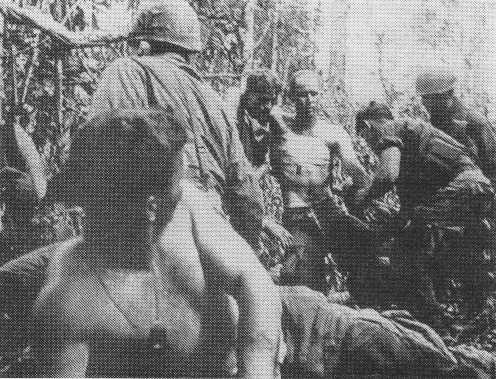 from Brewer and Hester